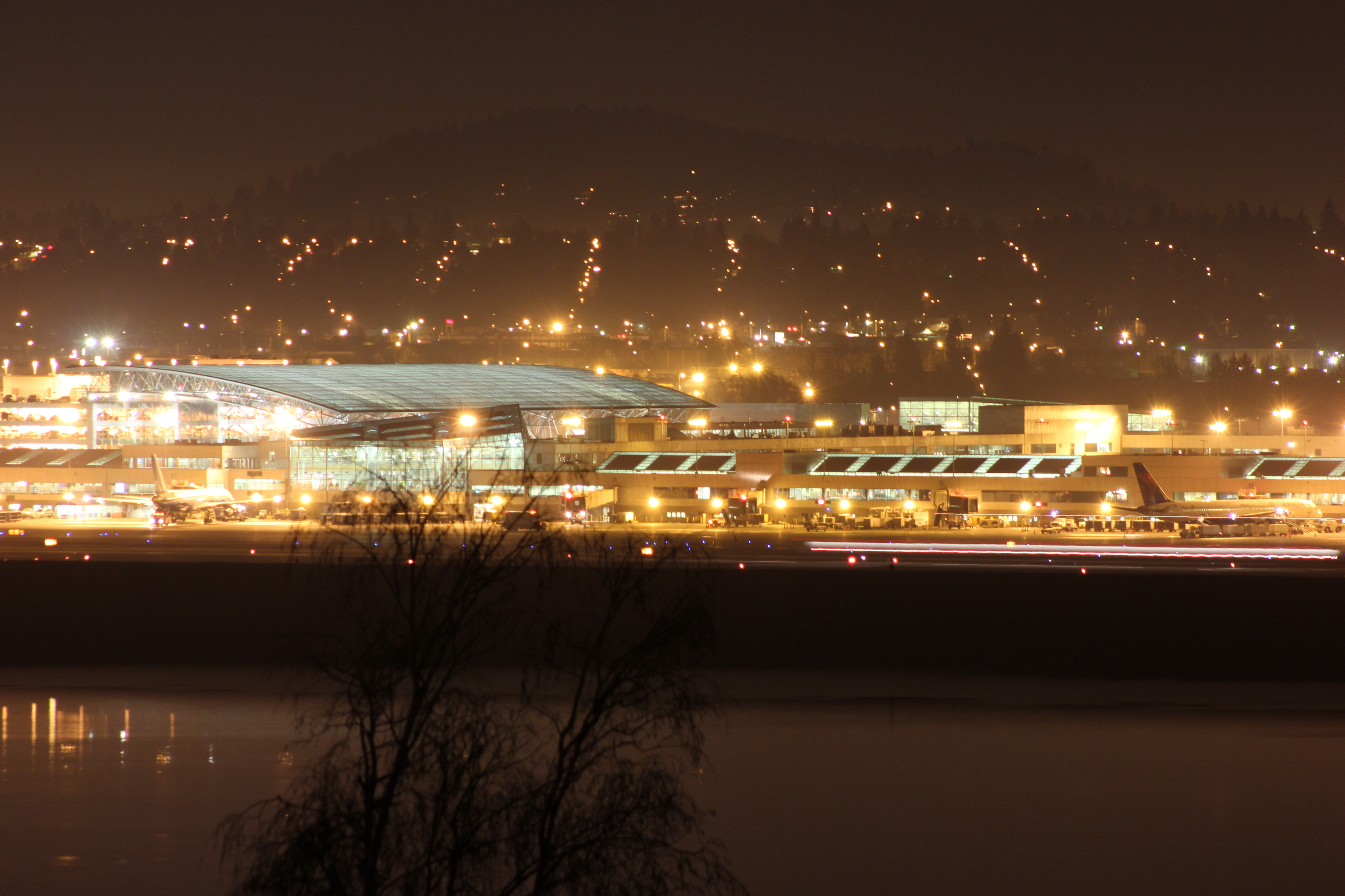 Portland International Airport (PDX, Portland, OR, US) at night.